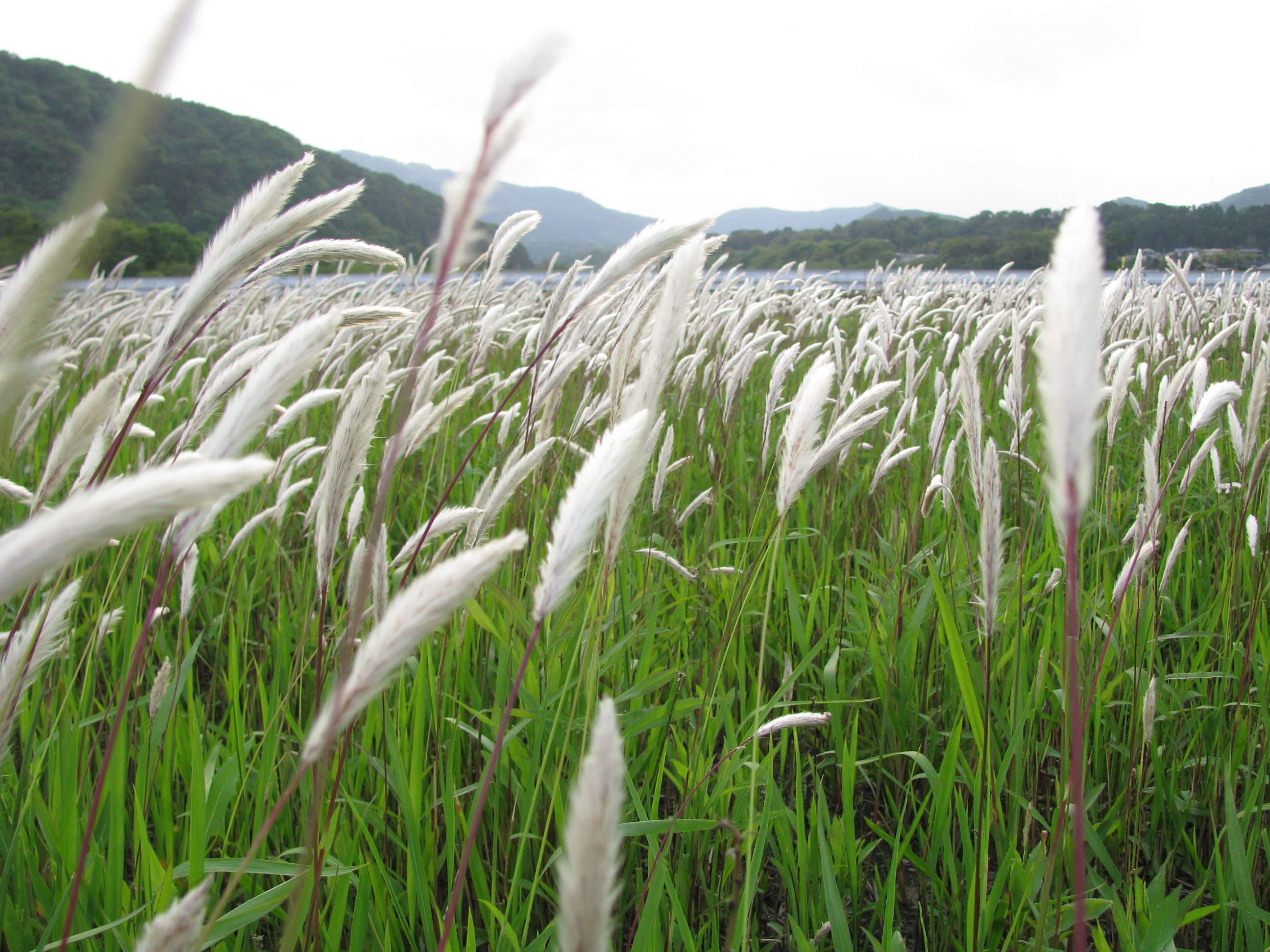 The Chigaya. This located is in Aikawa, Aikō District, Kanagawa Prefecture, Japan.